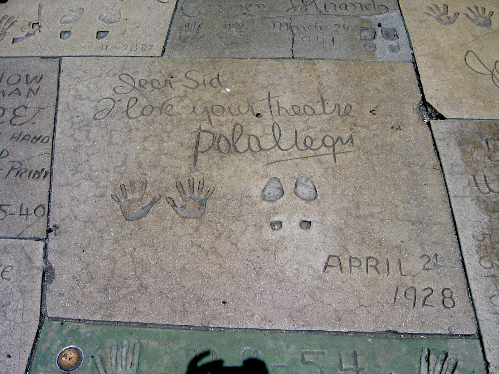 Signature and prints of Pola Negri's hands and feet in front of Grauman's Chinese Theater, Hollywood